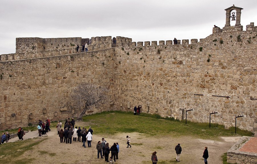 Interior del castillo